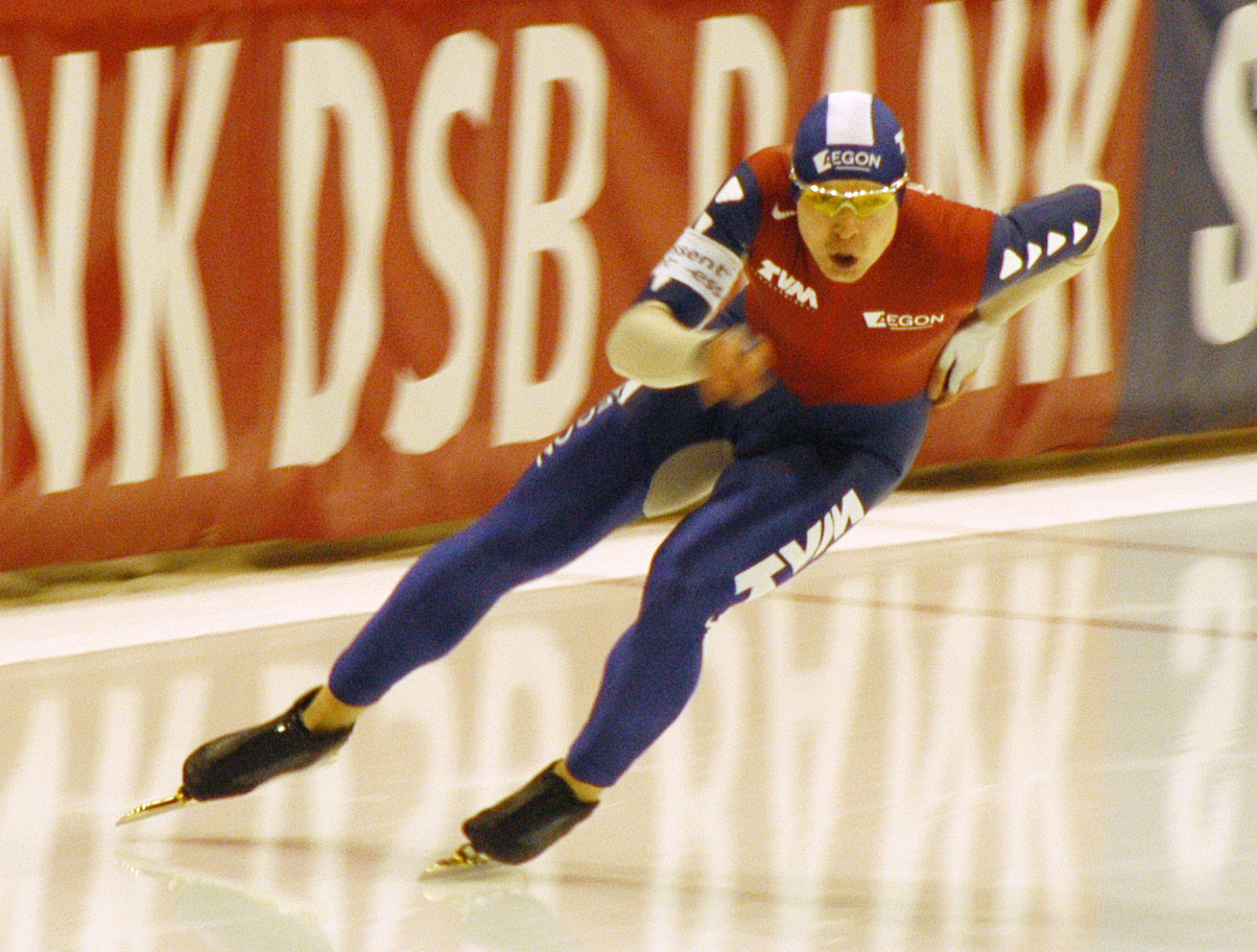 Beorn Nijenhuis (NED) during a 500 meters world cup speedskating race in Heerenveen, the Netherlands.